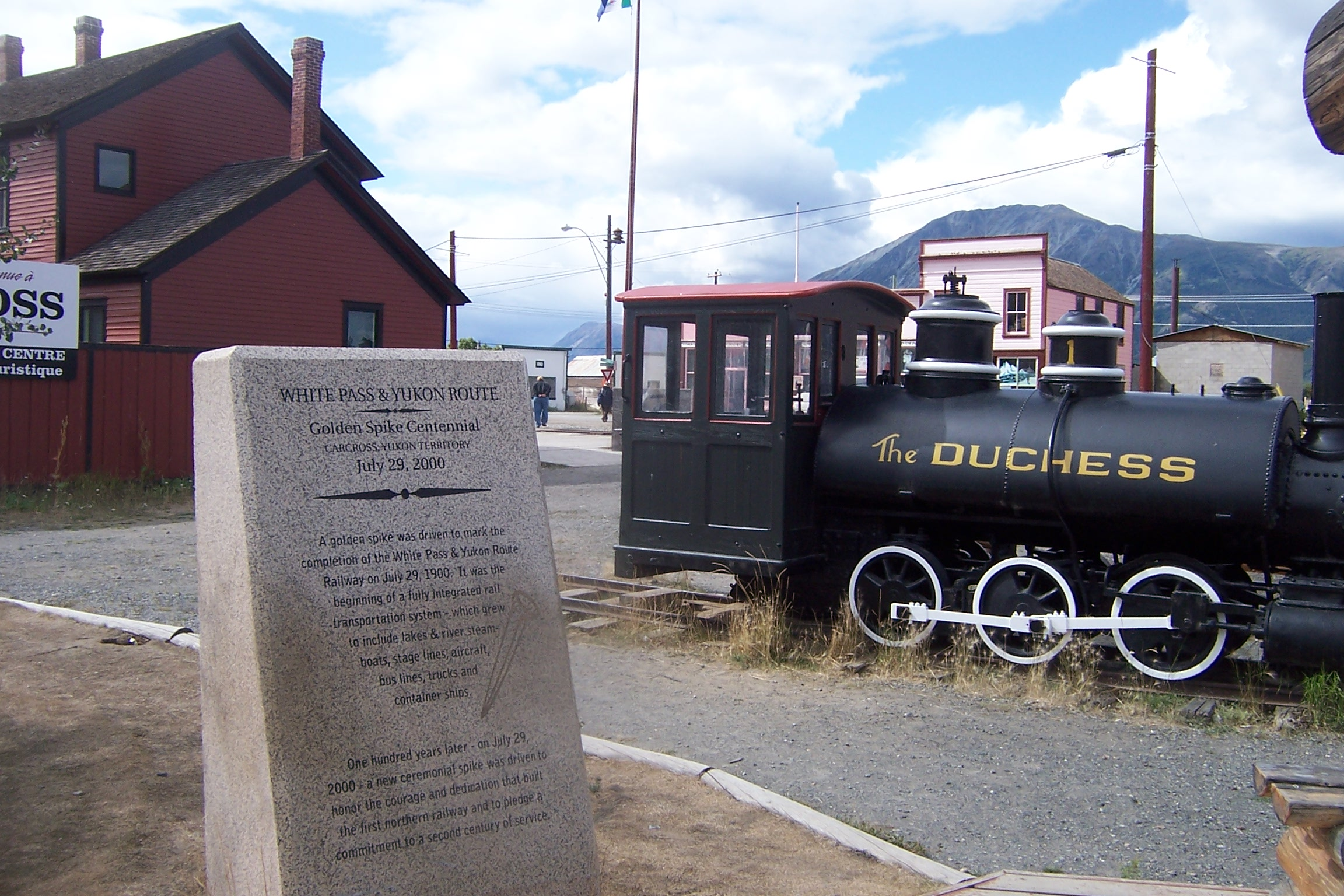 Golden Spike Centennial marker stone made in 2000 celebrating the 1900 completion of the White Pass & Yukon Route. Carcross, Yukon.